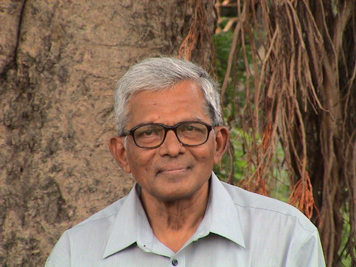 Rationalist, Writer, Atheist and Journalist from India.